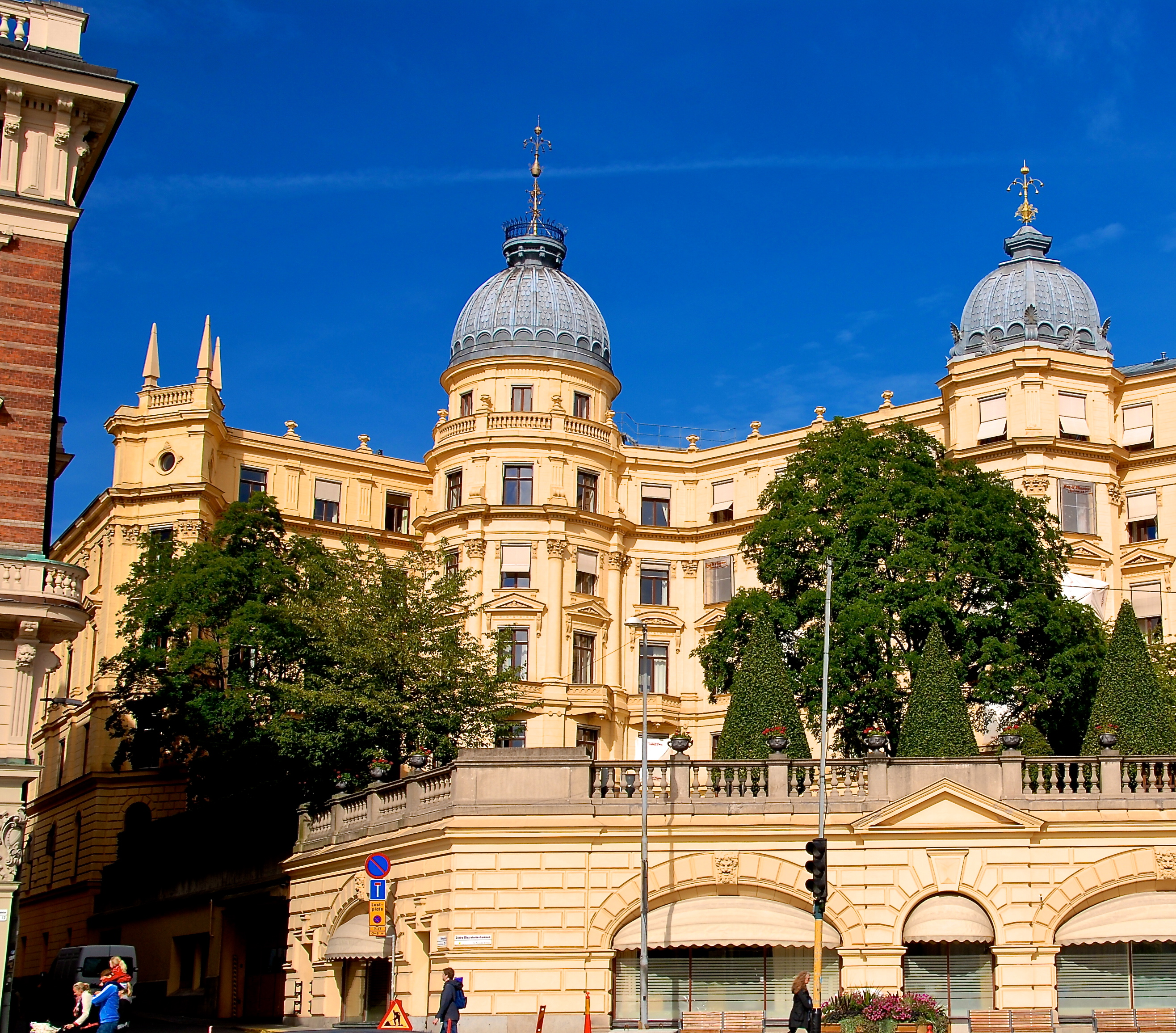 Fersen palace, Stockholm